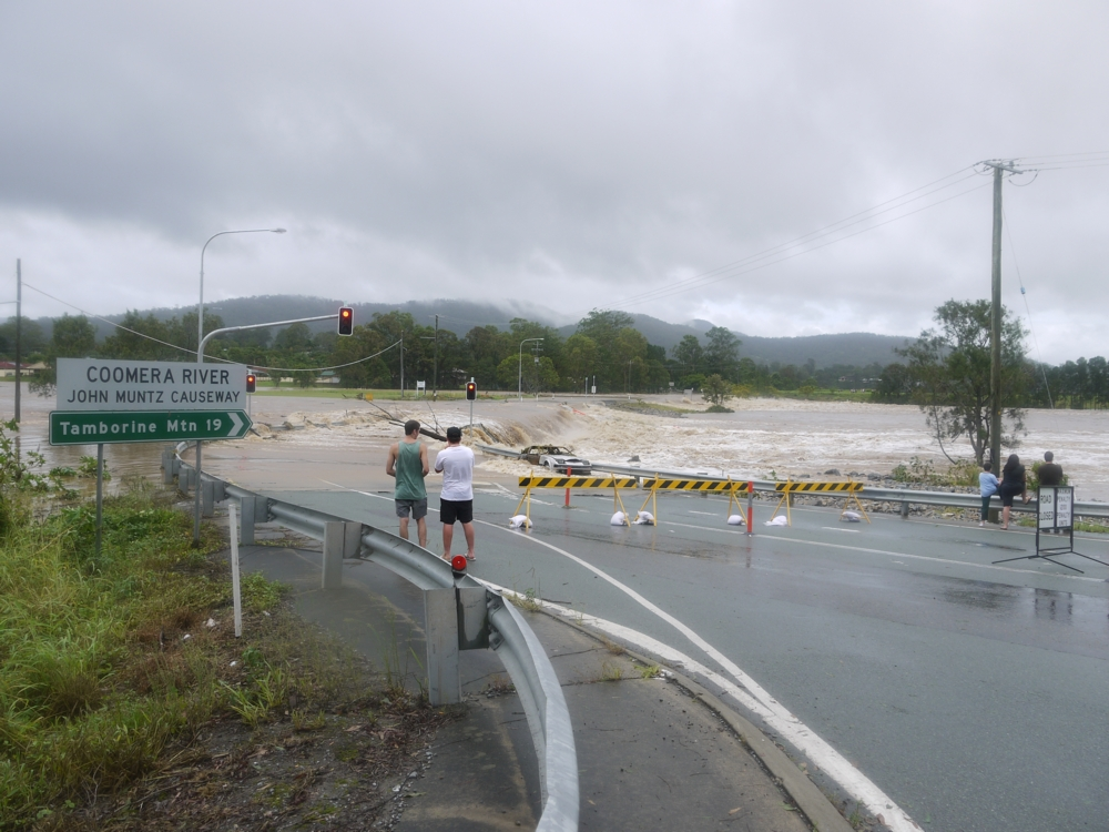 John Muntz Causeway, a crossing on the Coomera River closed following rains brought by ex-cyclone Oswald